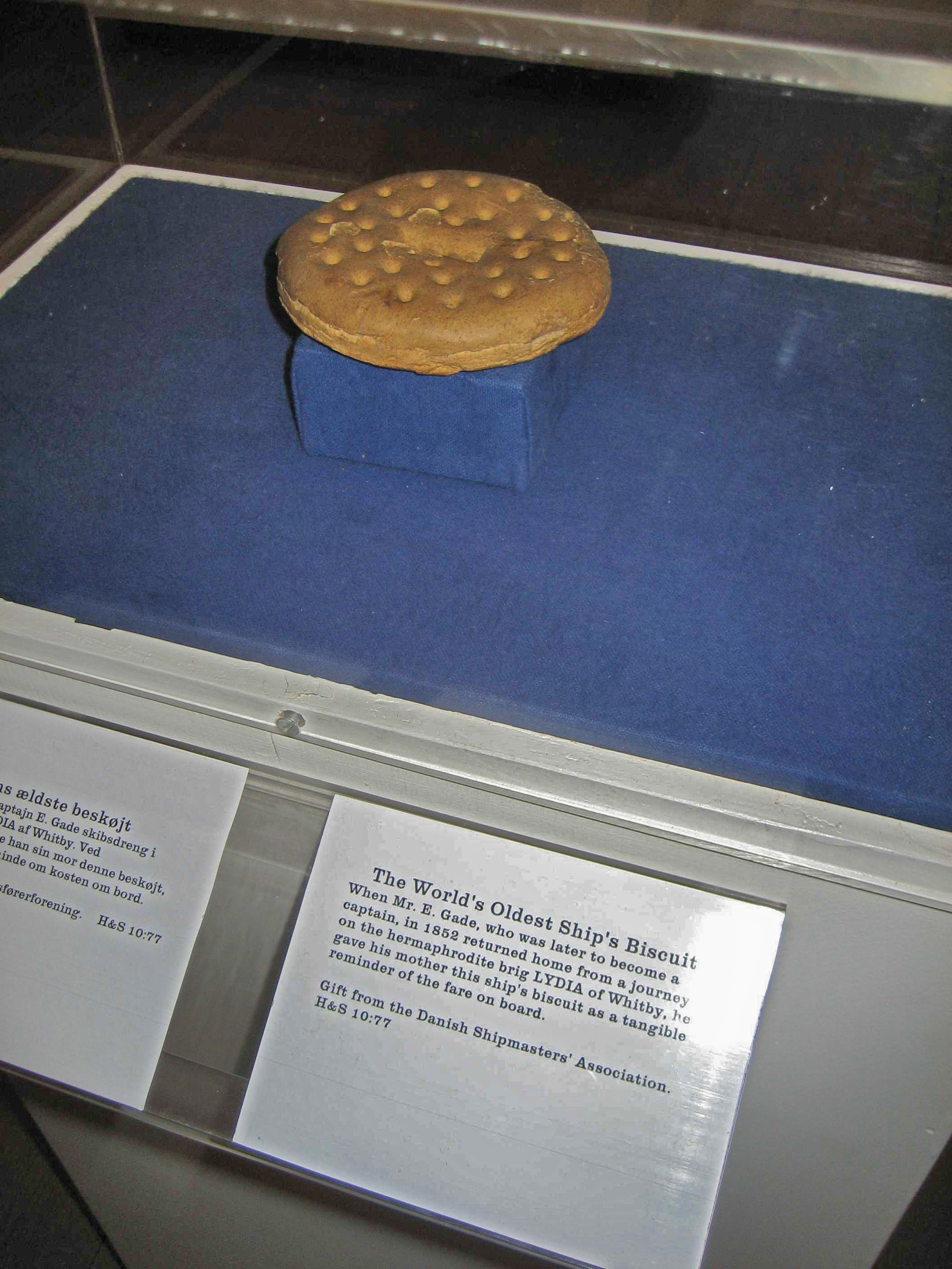 A ship biscuit, purportedly the oldest in the world, is displayed prominently at the maritime museum in Kronborg castle, Elsinore, Denmark. The label tells that this biscuit dates from as early as 1852. Photo by Paul Cziko.